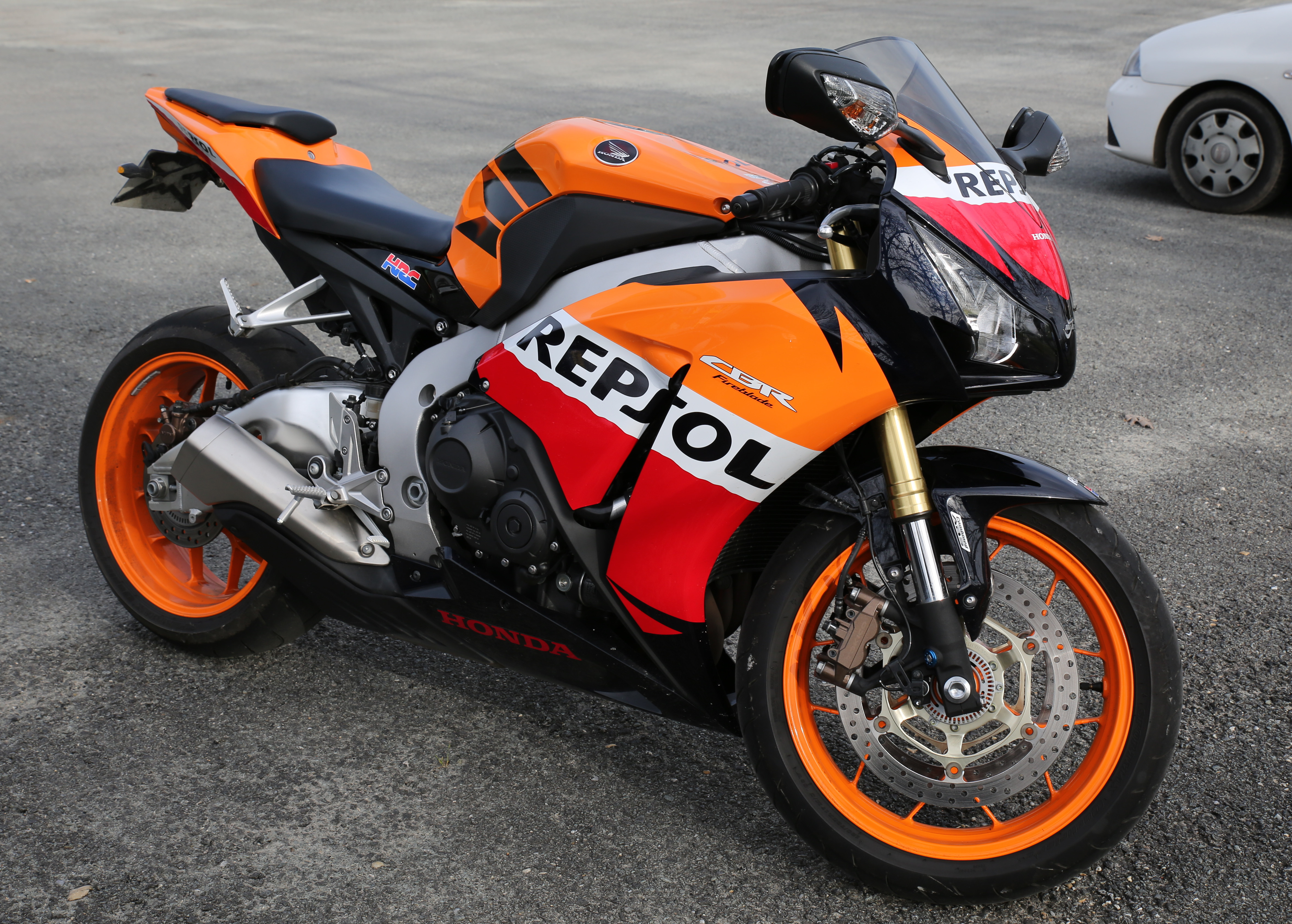 Honda CBR 1000 RR Fireblade Repsol edition circa 2013